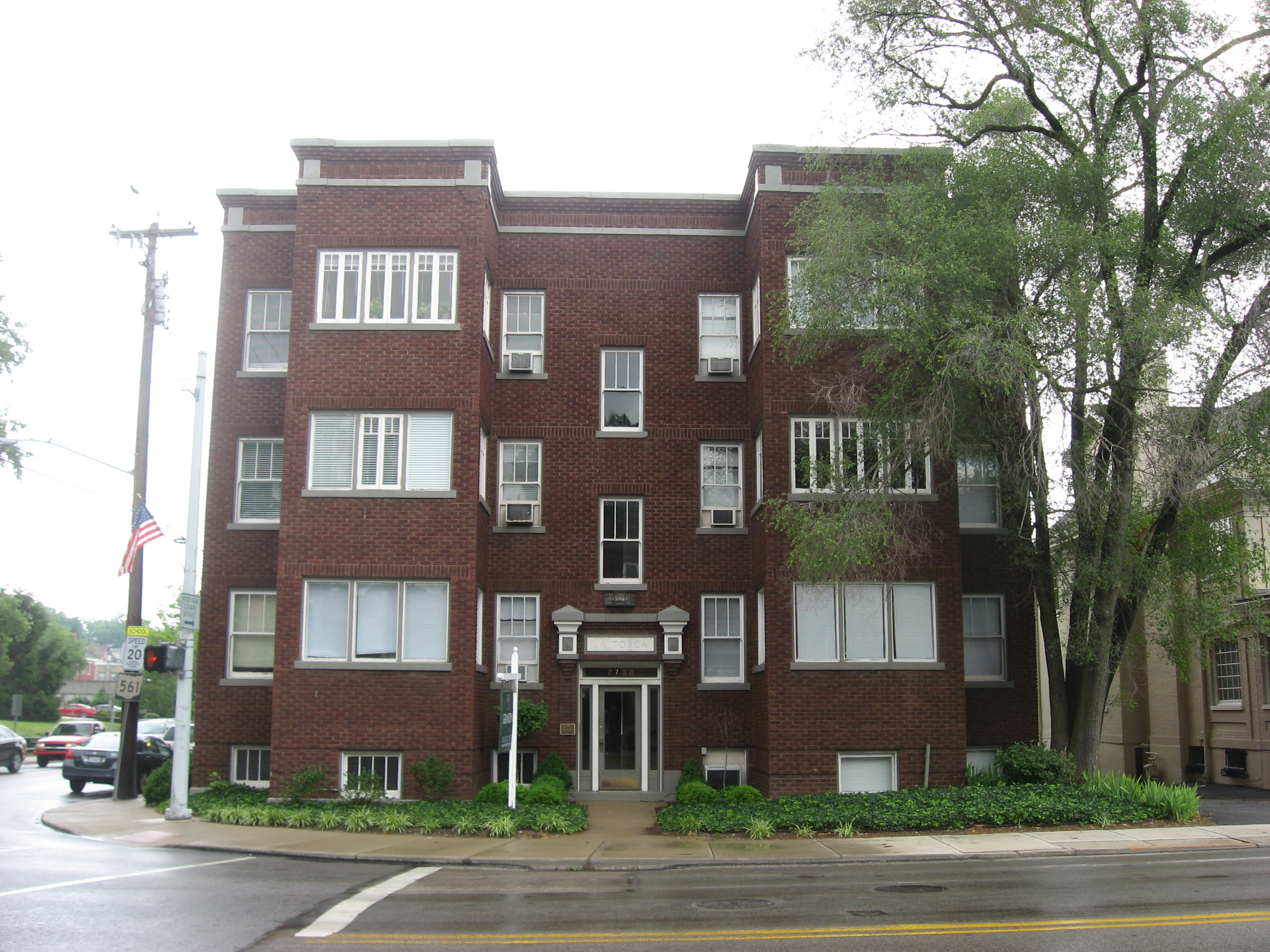 Front of the La Tosca Flats, located at 2700 Observatory Avenue in Cincinnati, Ohio, United States. Built in 1915, it is listed on the National Register of Historic Places.